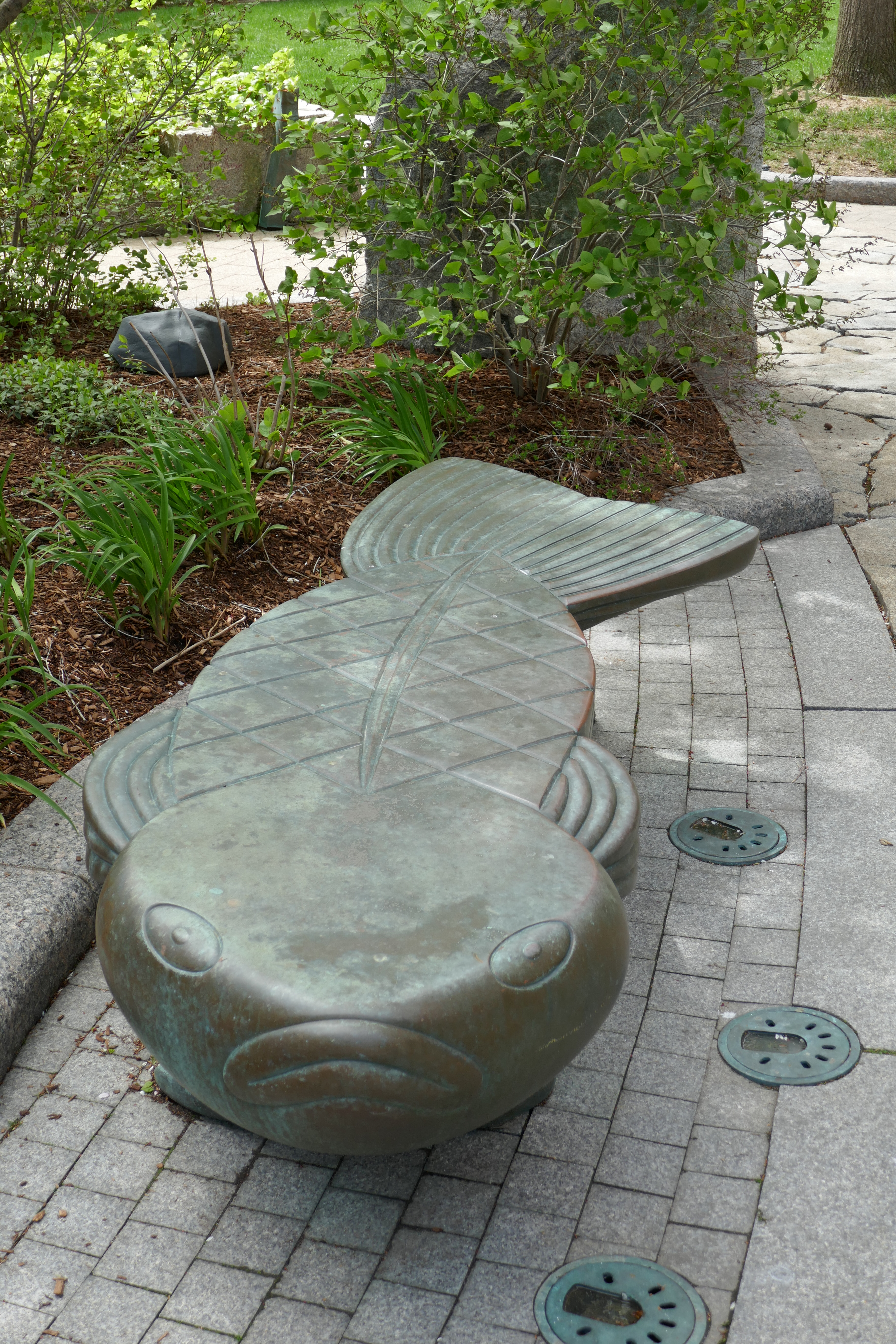 Judy Kensley McKie bench at Eastport Park, on the South Boston Waterfront